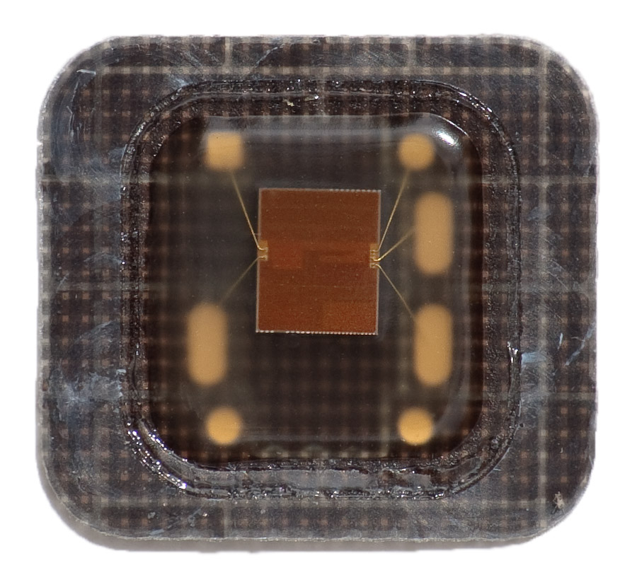 Back side of a 8-contact smart-card-chip from a Geldkarte.